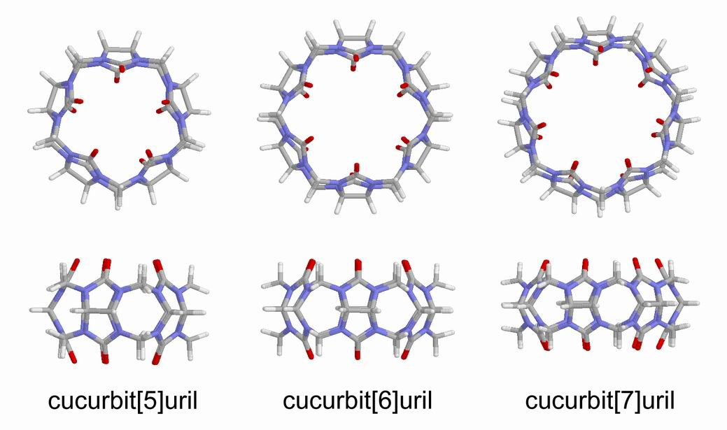 Models of cucurbiturils composed of 5, 6, and 7 repeat units.